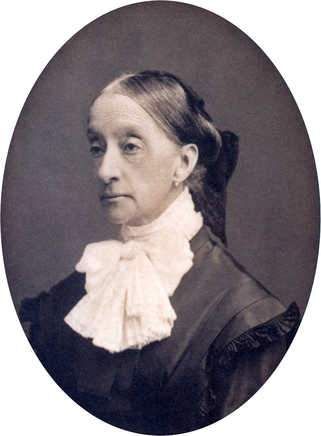 Princes Francisca of Brazil, c.1880